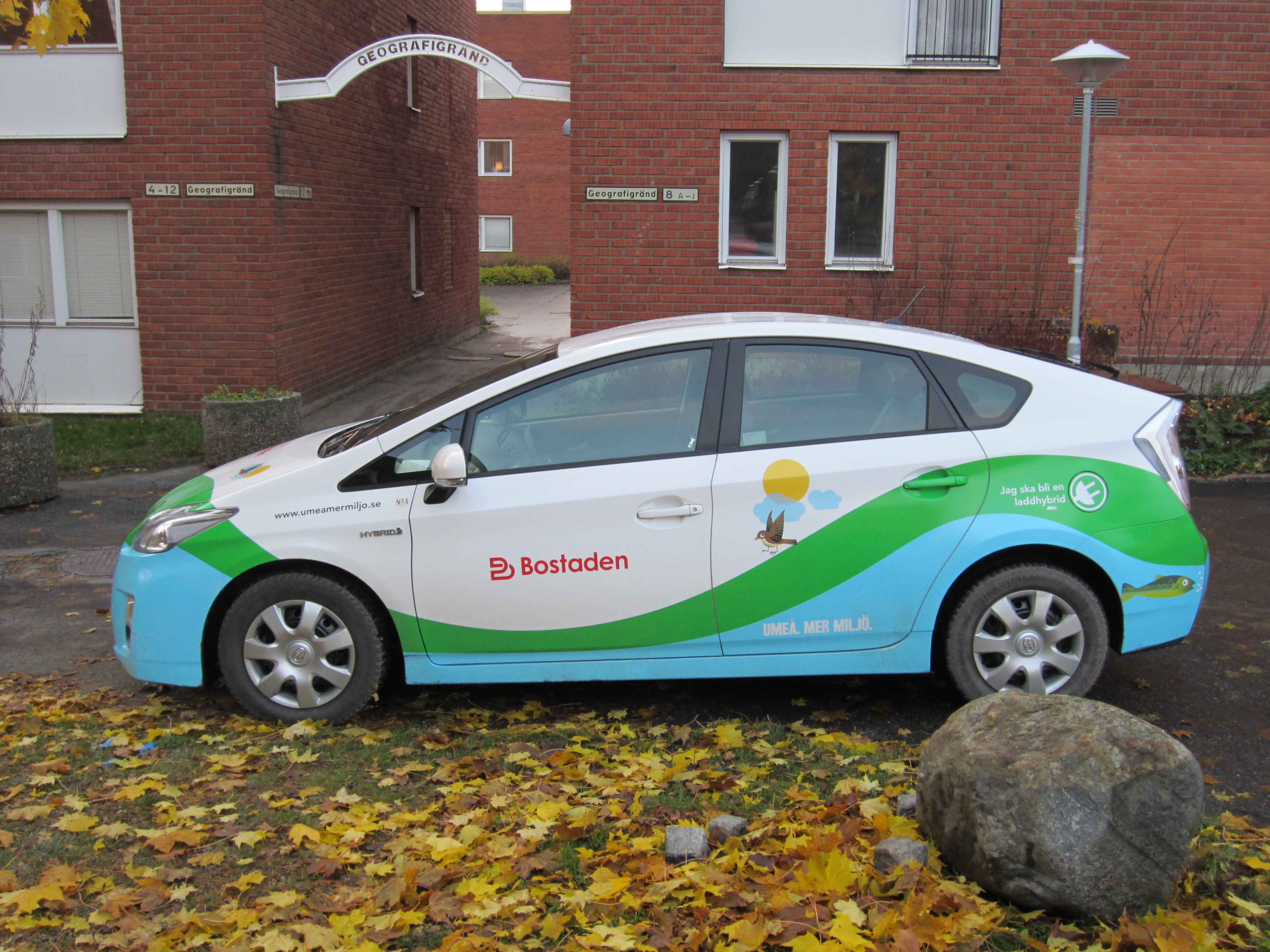 Hybrid vehicle owned by Bostaden, Umeå, Sweden.